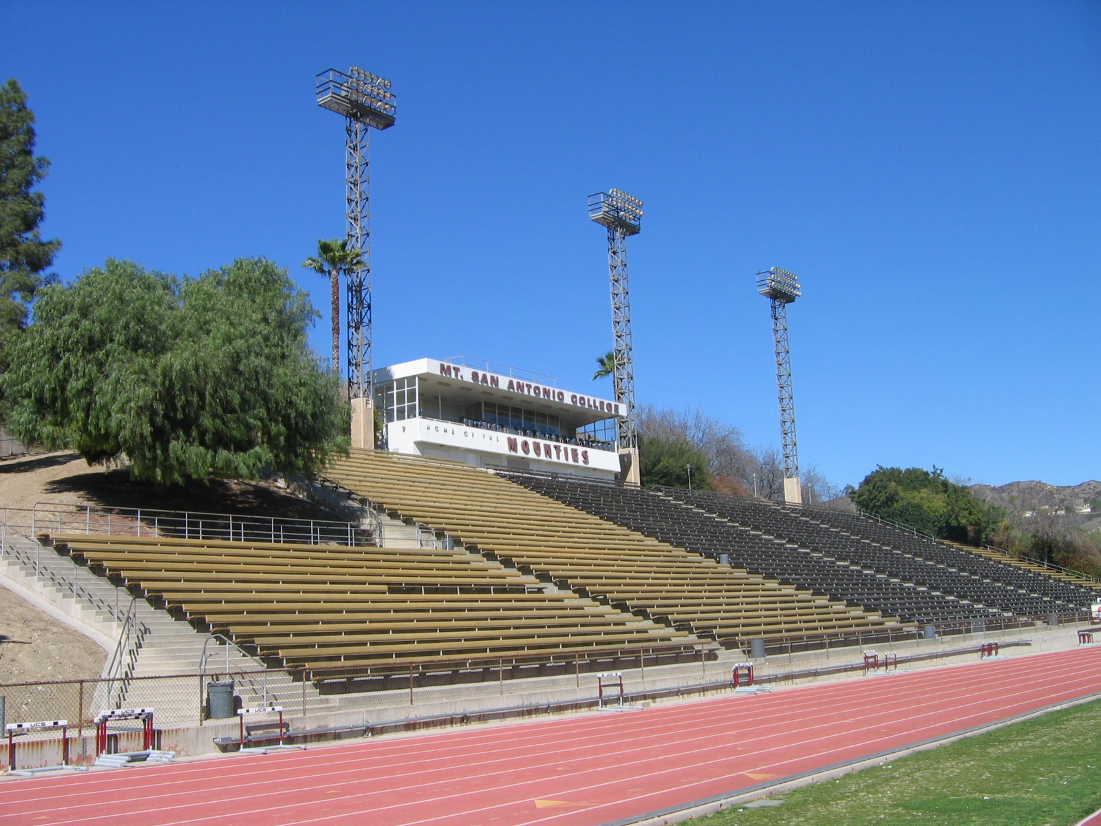 Football & Basketball Facilities Mt San Antonio Stadium